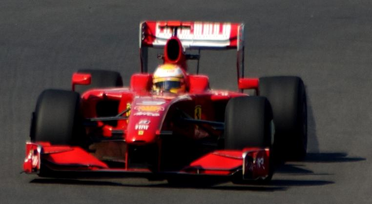 Luca Badoer driving for Scuderia Ferrari at the 2009 European Grand Prix.